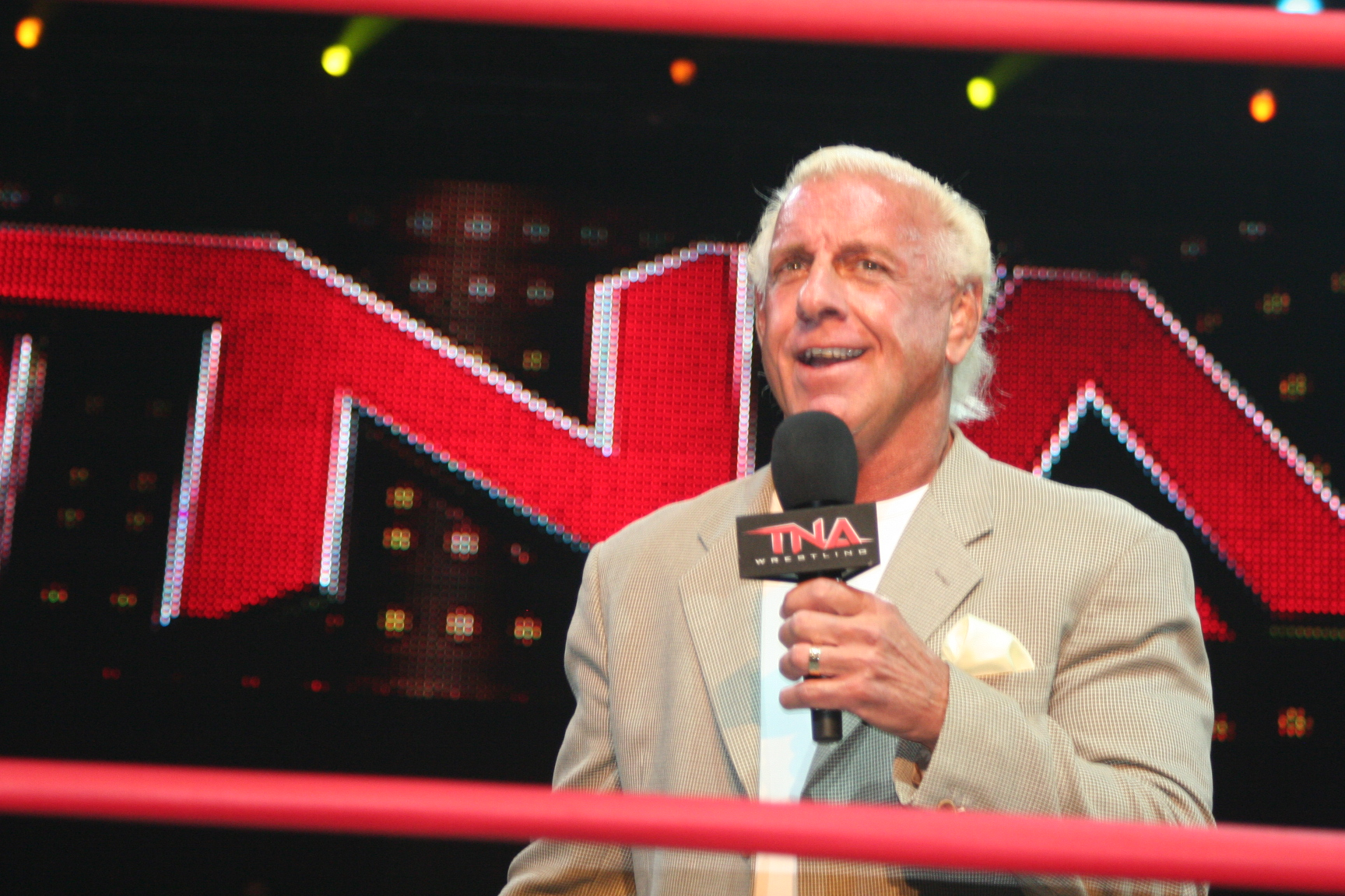 Ric Flair at the TNA Impact! tapings on July 26, 2010.